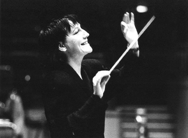 Conductor